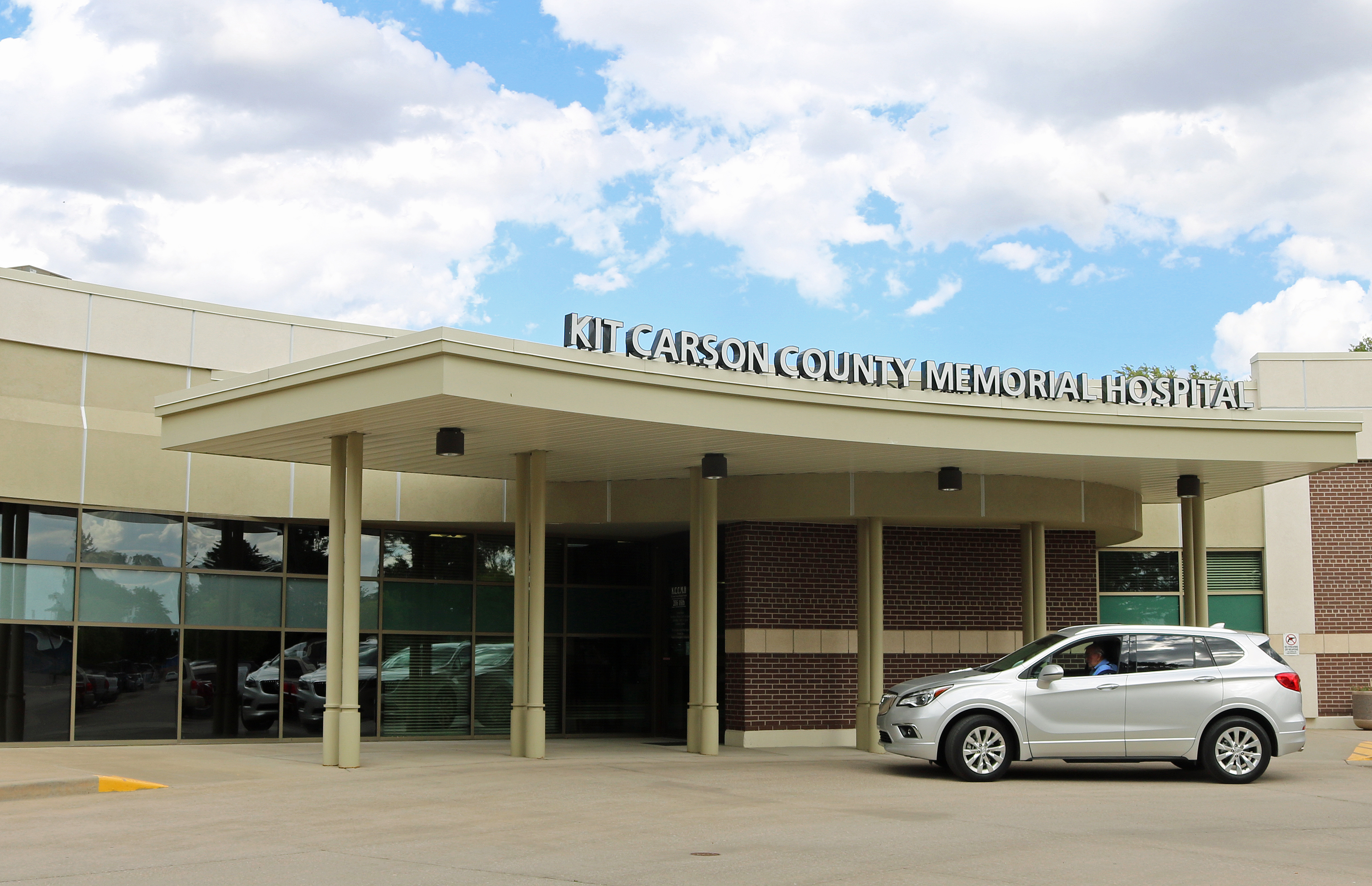 The Kit Carson County Memorial Hospital, located at 286 16th Street in Burlington, Colorado.